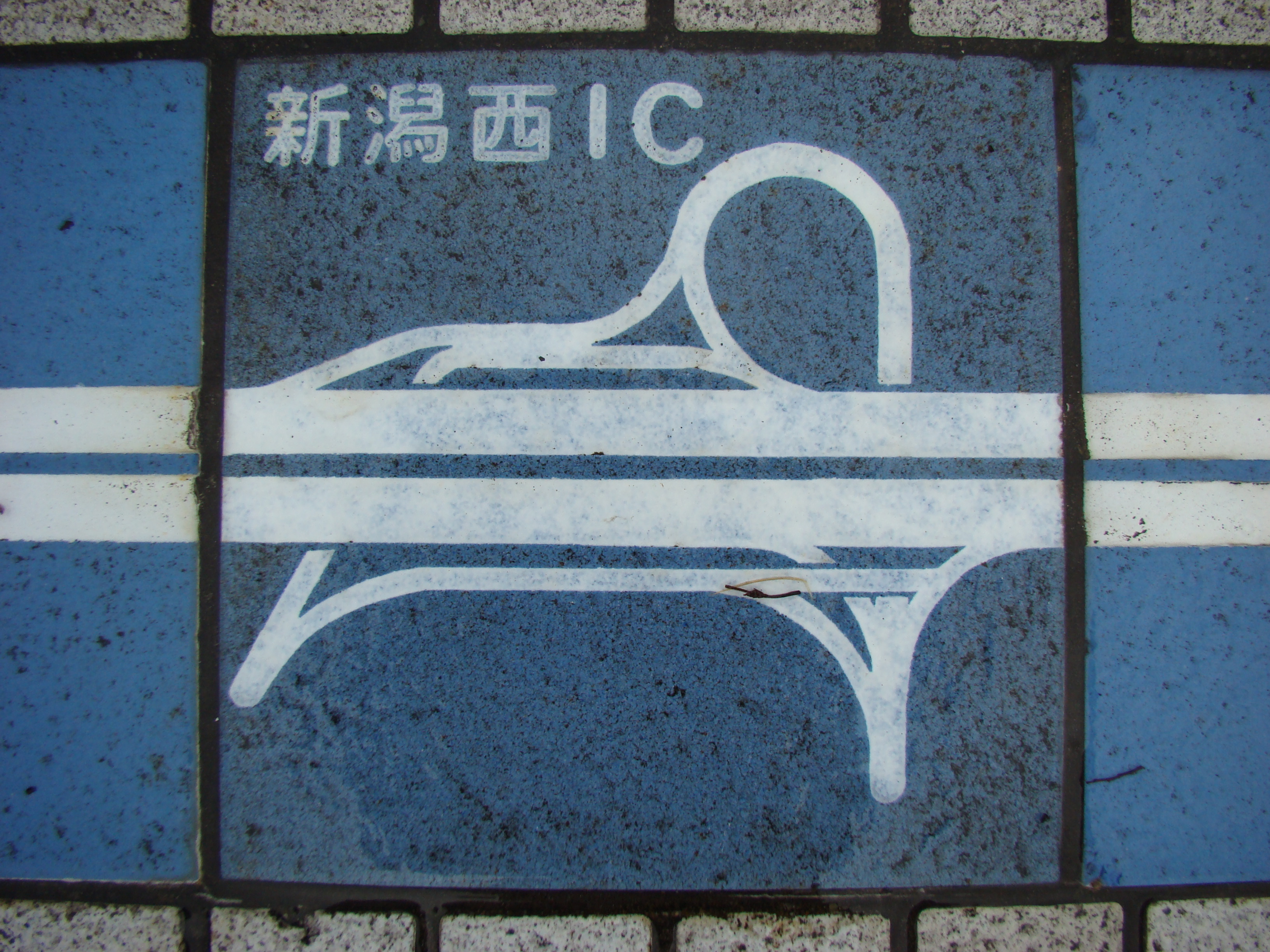 The tile which designed a shape of the Niigata Nishi Interchange（Hokuriku Expressway）（There is this tile in Hokuriku Expressway Nadachi-Tanihama Service Area.）. Place - Chayagahara,Joetsu City,Niigata Prefecture,Japan Date - August 9, 2009 Format - JPEG, 3264x2448pixel, 24bit colors. Photographer - NALA Wiki (talk)